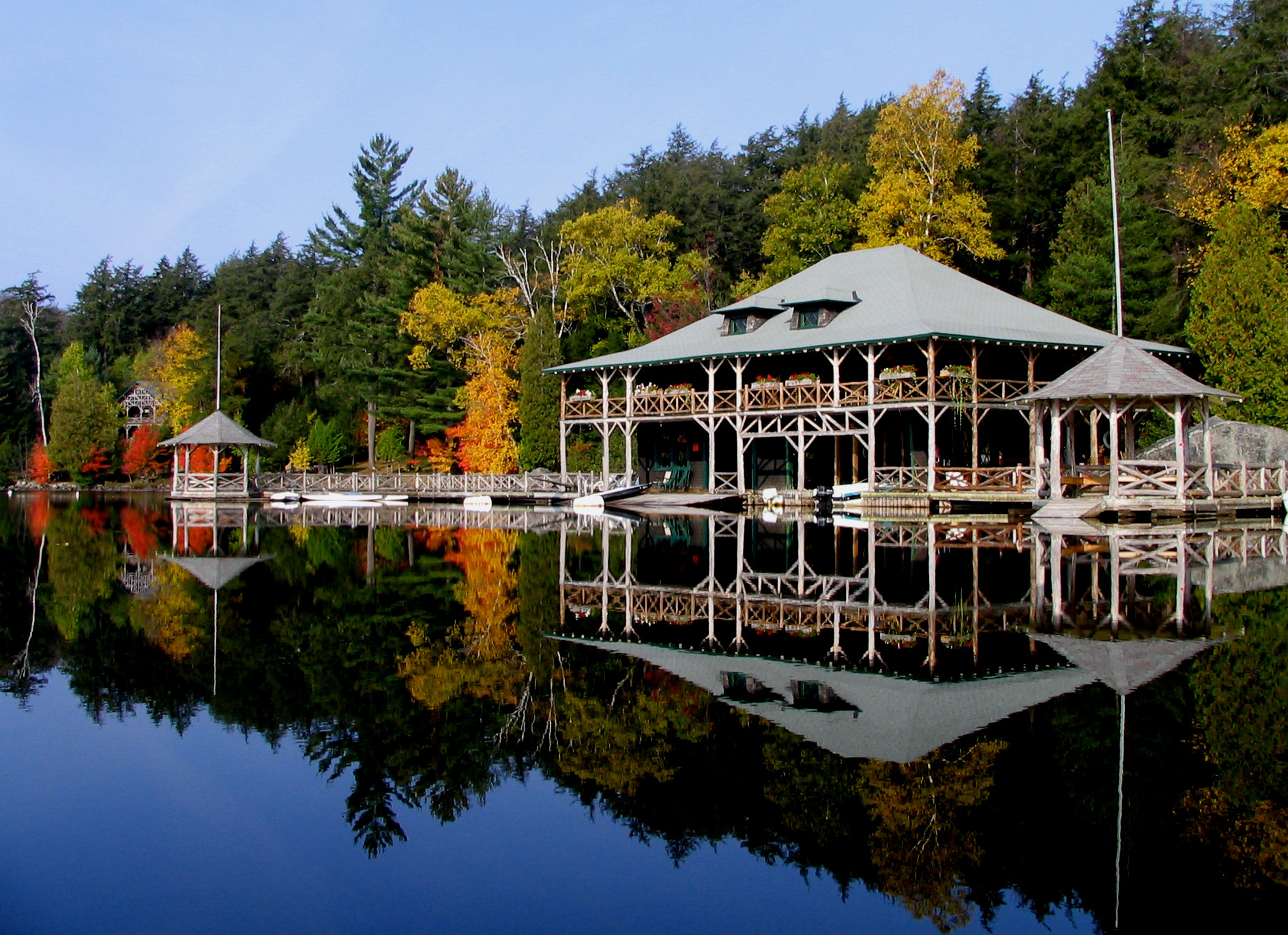 Talk 00:21, 27 June 2009 (UTC) Taken by User:Mwanner, 18 October, 2007.